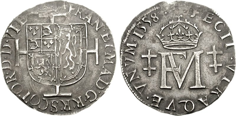 Scotland. Mary, Queen of Scots, with Francis, Dauphin de France. 1542-1567. AR Testoon (5.81 g, 12h). Dated 1558. FR•AN • ET • MA • D • G • R • R • SCOTORVM • D • D • VIE[N], crowned arms of Francis and Mary over cross potent • FECIT • VTRAQVE • VNVM • 1558 •, crowned FM; Lorraine cross to either side. Burns fig. 878 var. (legend); SCBI 35 (Ashmolean & Hunterian), 1085 var. (same); SCBC 5416. VF, toned, small flat spot at 12 o’clock.